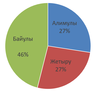 Junier zhuz composition at begin of 20 century